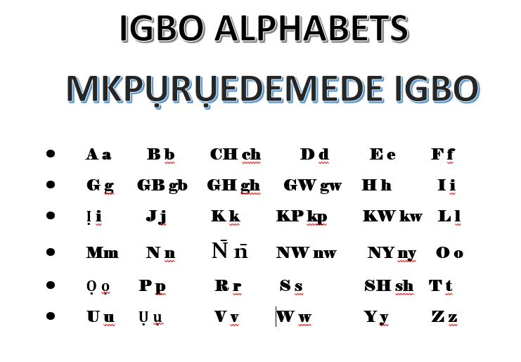 Abidịị Igbo is forthe content am writting